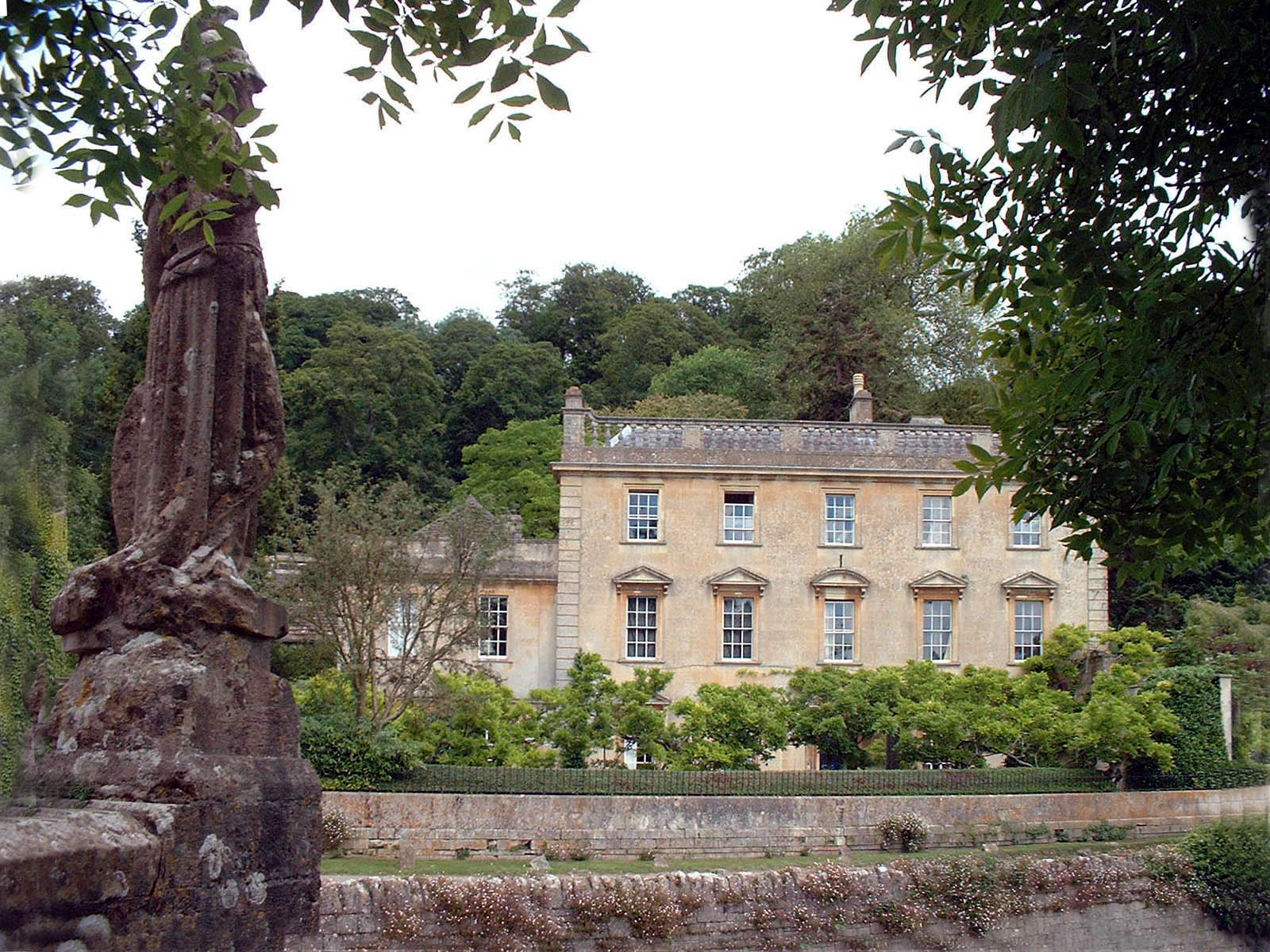 Iford manor and statue photo by user